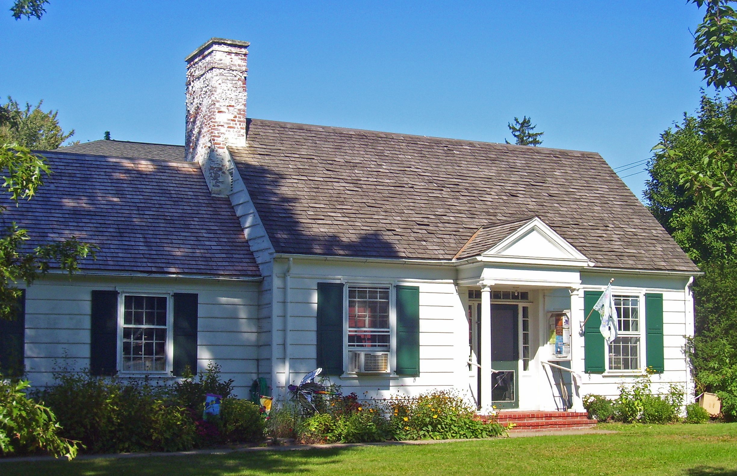 Claverack Free Library, Claverack, NY, USA